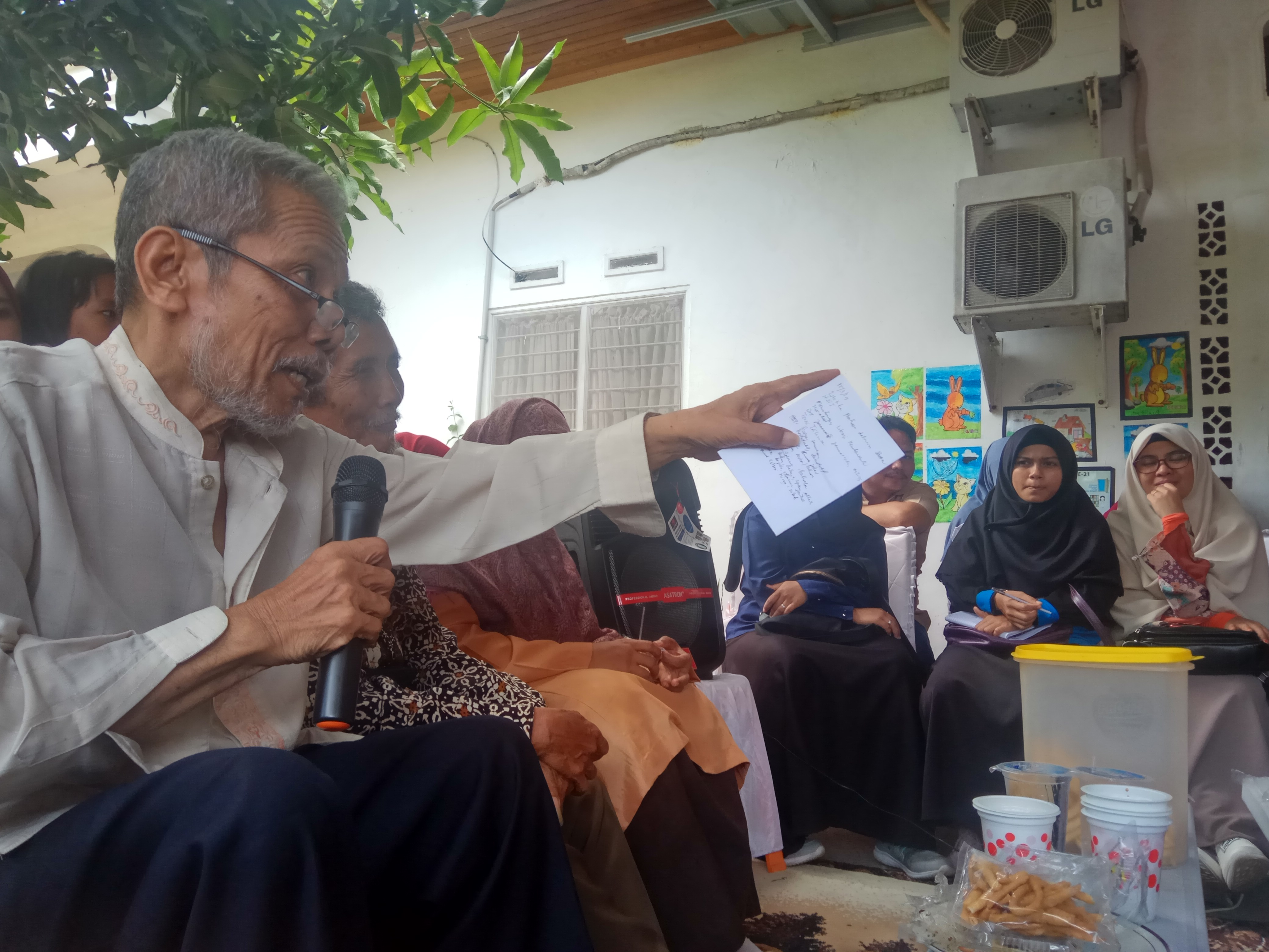 Darman Moenir Padang 2019